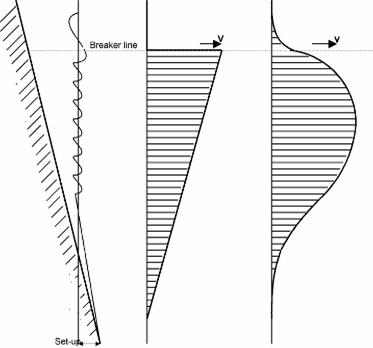 Distribution perpendicular of the coastline of the longshore current by breaking waves. Left figure is the coastal profile, second figure is the distribution acc. to linear theory and regular waves, right figure is real distribution, taking into account that waves are random